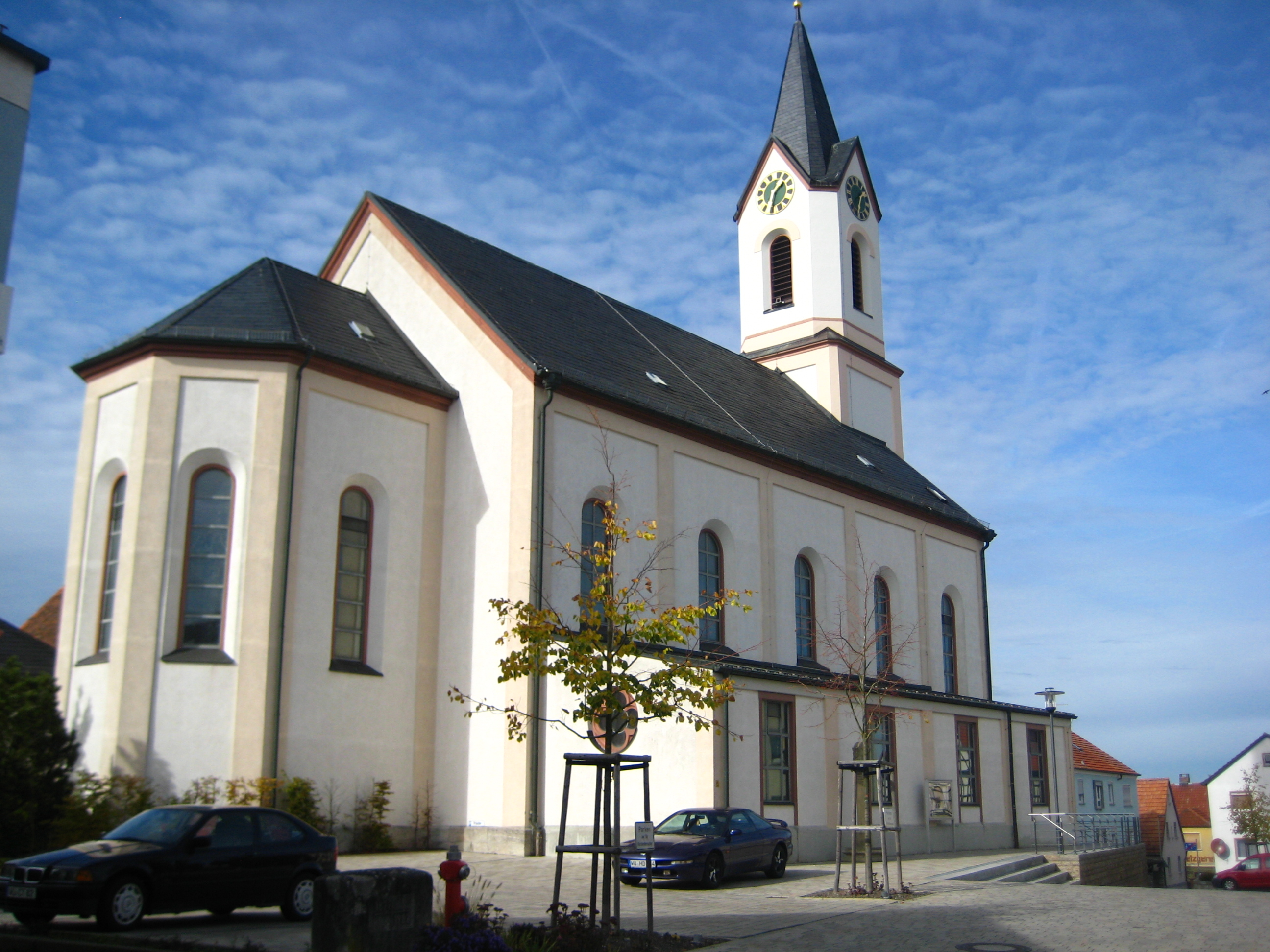 Catholic Parish Church St. Bartholomew. Built in 1872.